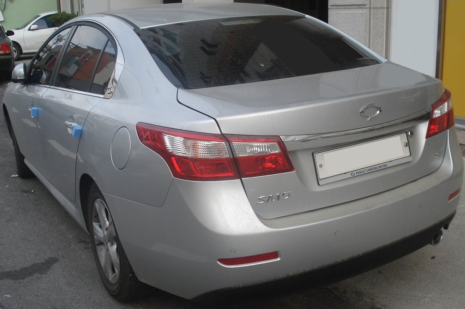 Renault Samsung New SM5